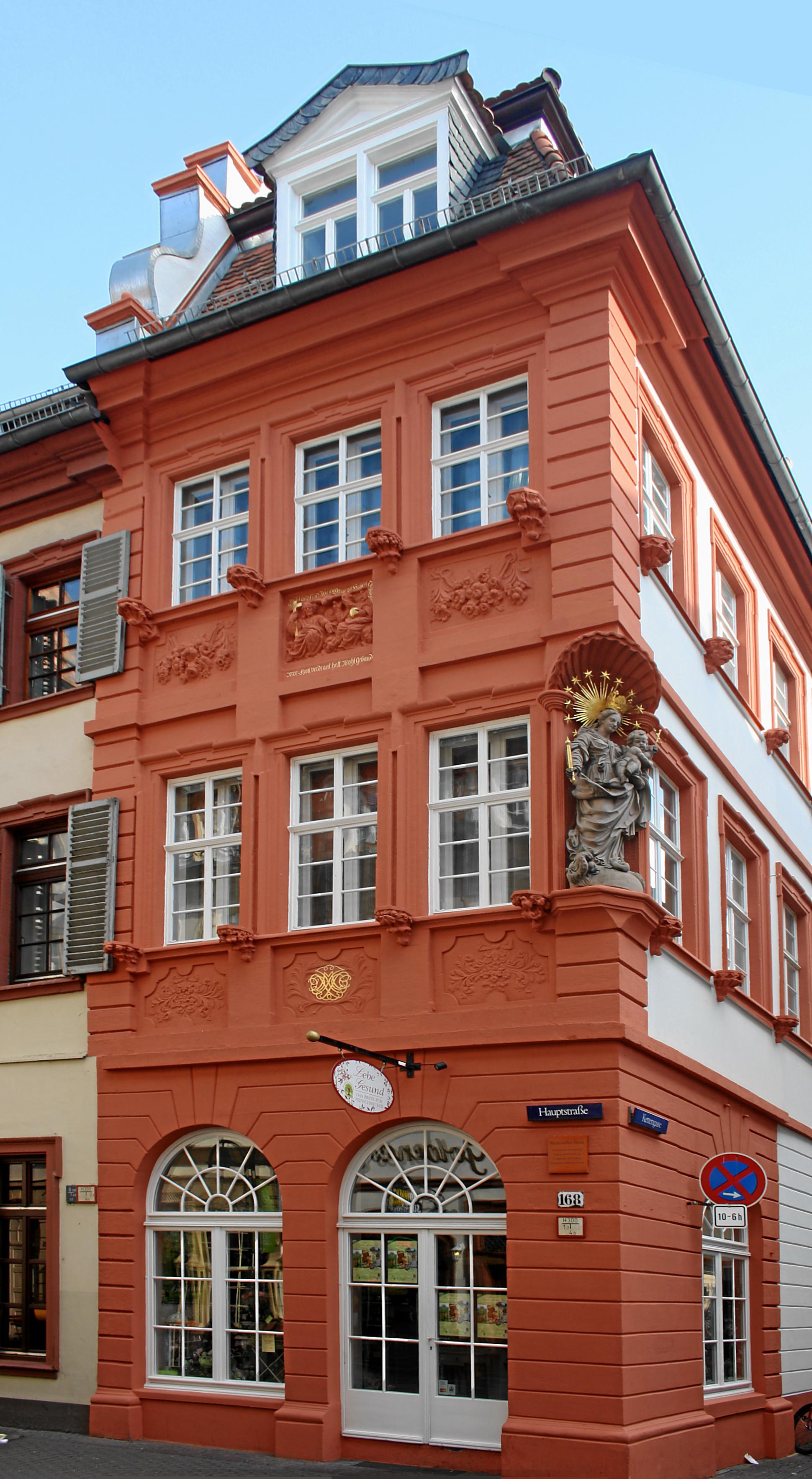 Heidelberg, Germany. Medersches Haus, rich decorated burgher's house, built in 18th century.